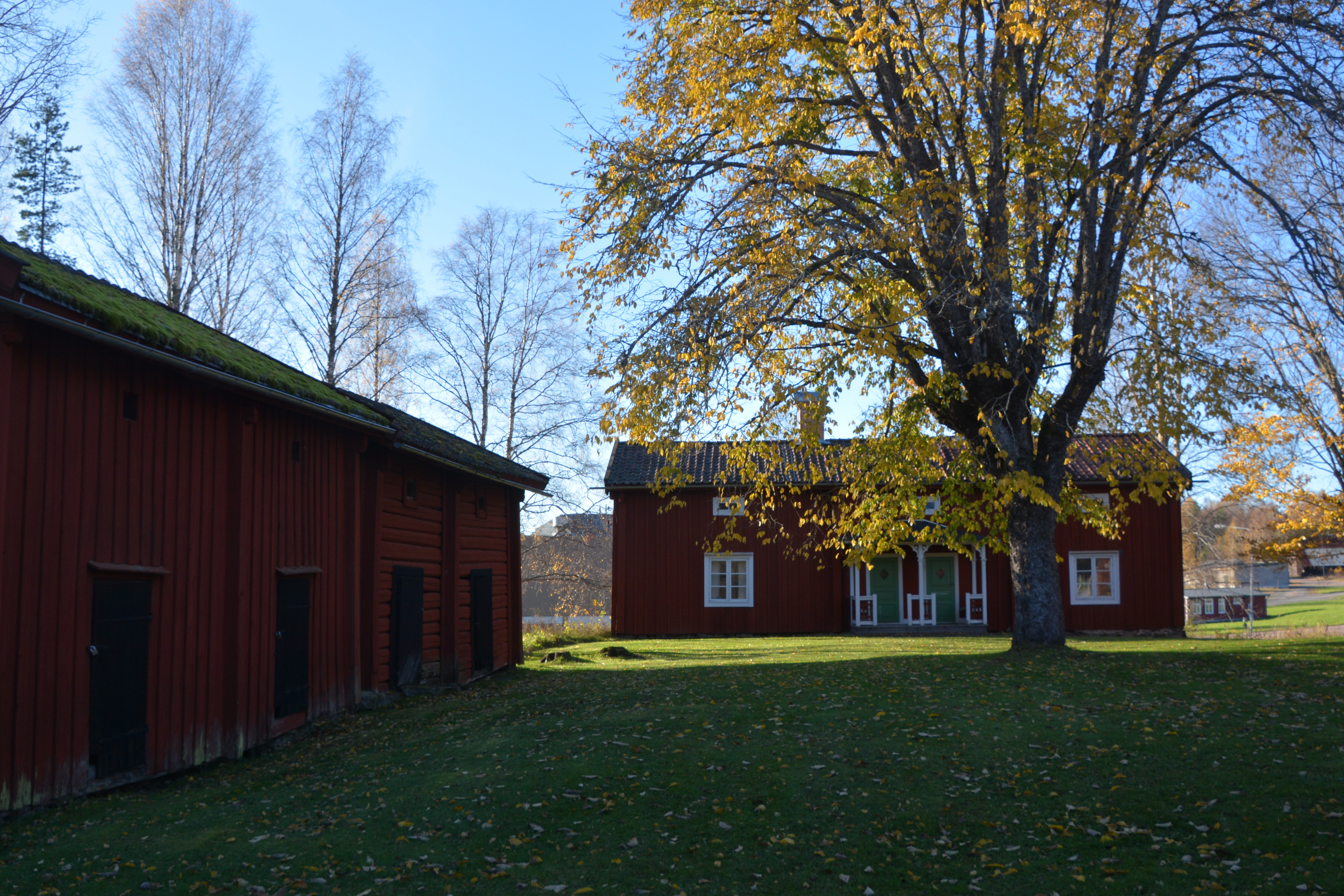 Ställdals gård